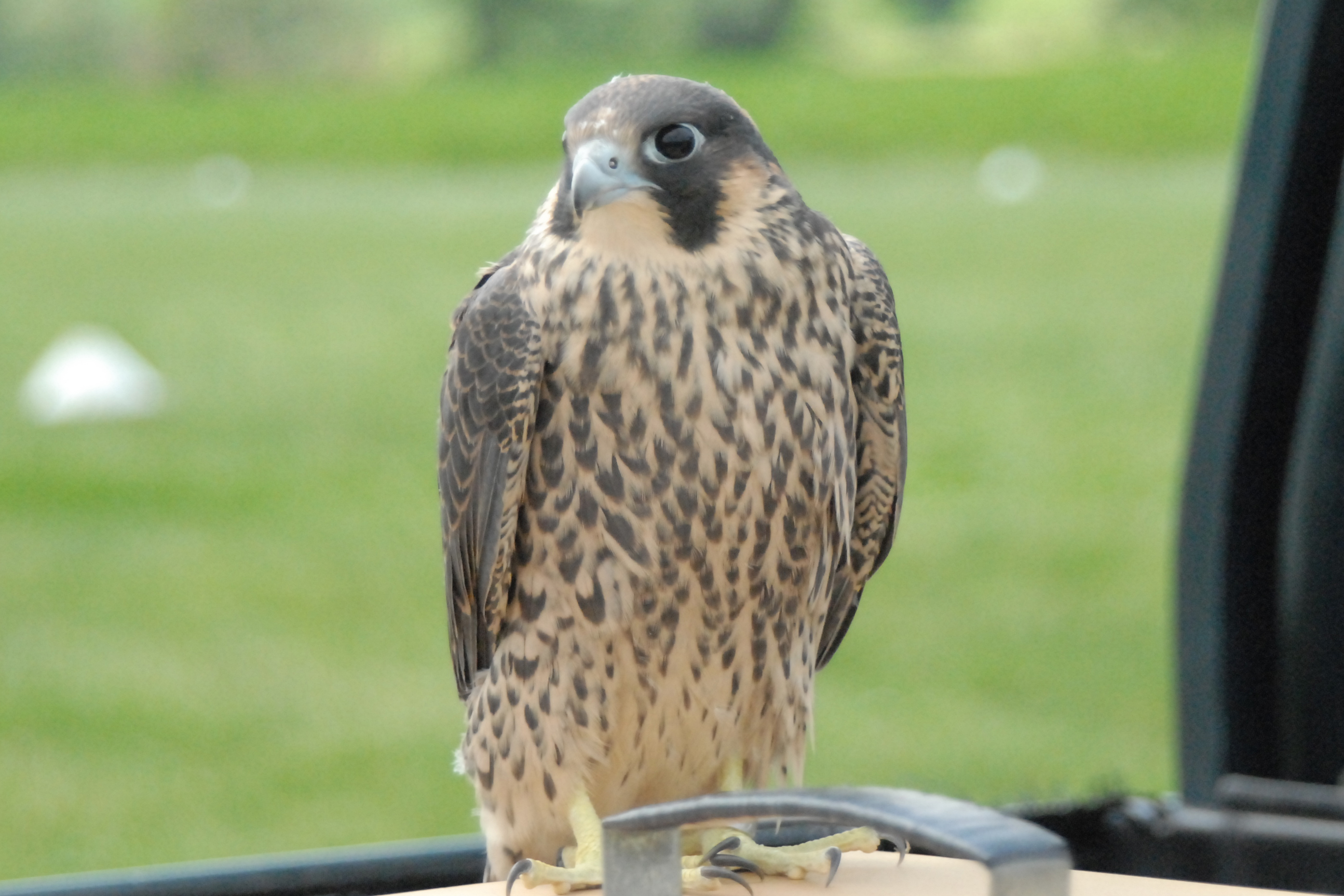 Picture of a Peregrine Falcon